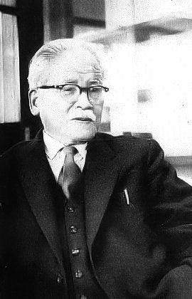 Yoshishige Abe